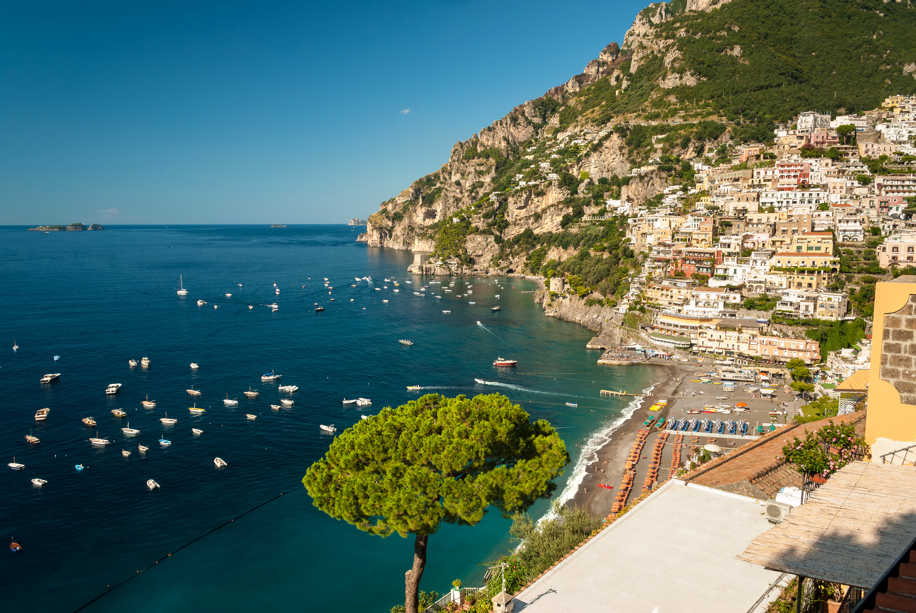 Positano with Spiaggia Grande